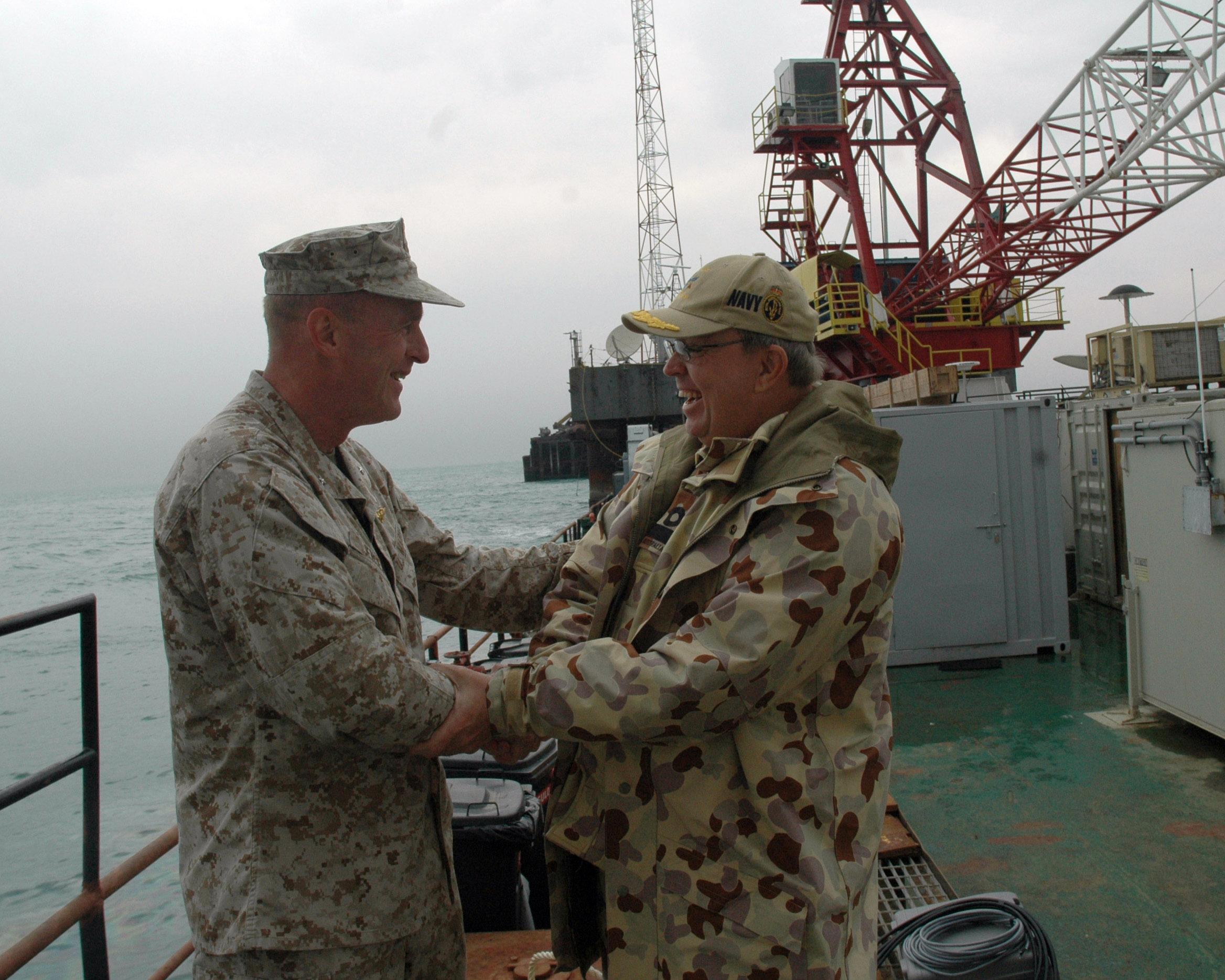 Persian Gulf (Nov. 12, 2006) - U.S. Marine Brig. Gen. Carl Jensen bids Royal Australian Commodore Peter Lockwood farewell after turning over the Combined Task Force One Five Eight (CTF) 158 mission. Lockwood had commanded the task force since June 23. CTF 158 is specifically responsible for ensuring the security of Iraq’s Khawr Al Amaya and Al Basra oil terminals. U.S. Navy photo by Lt. Karen E. Eifert (RELEASED)